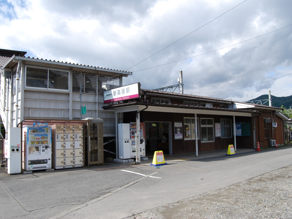 Shin-Takatoku Station on the Tobu Kinugawa Line